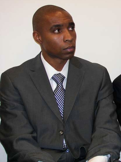 Retired soccer player Eddie Pope This file has been extracted from another file: Eddie Pope Zach Wamp 2.7.08.jpg